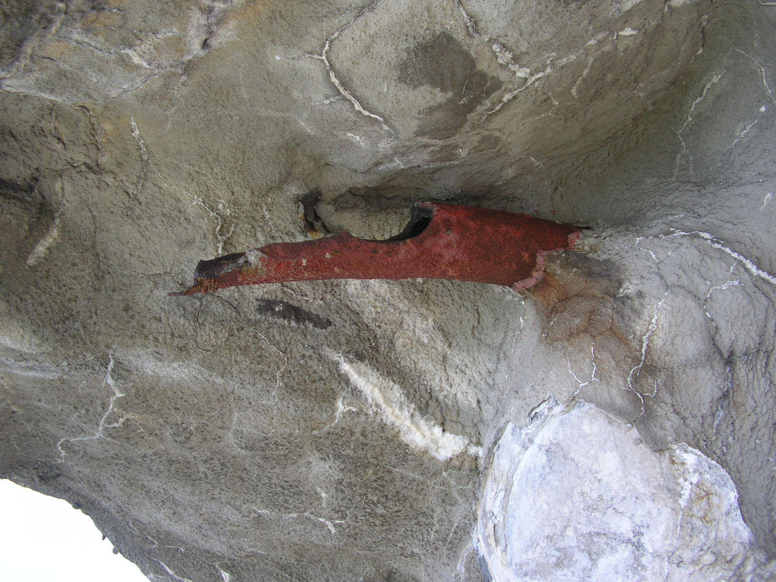 Shot Röhling in building N-S 72 of fortress Dobrošov.